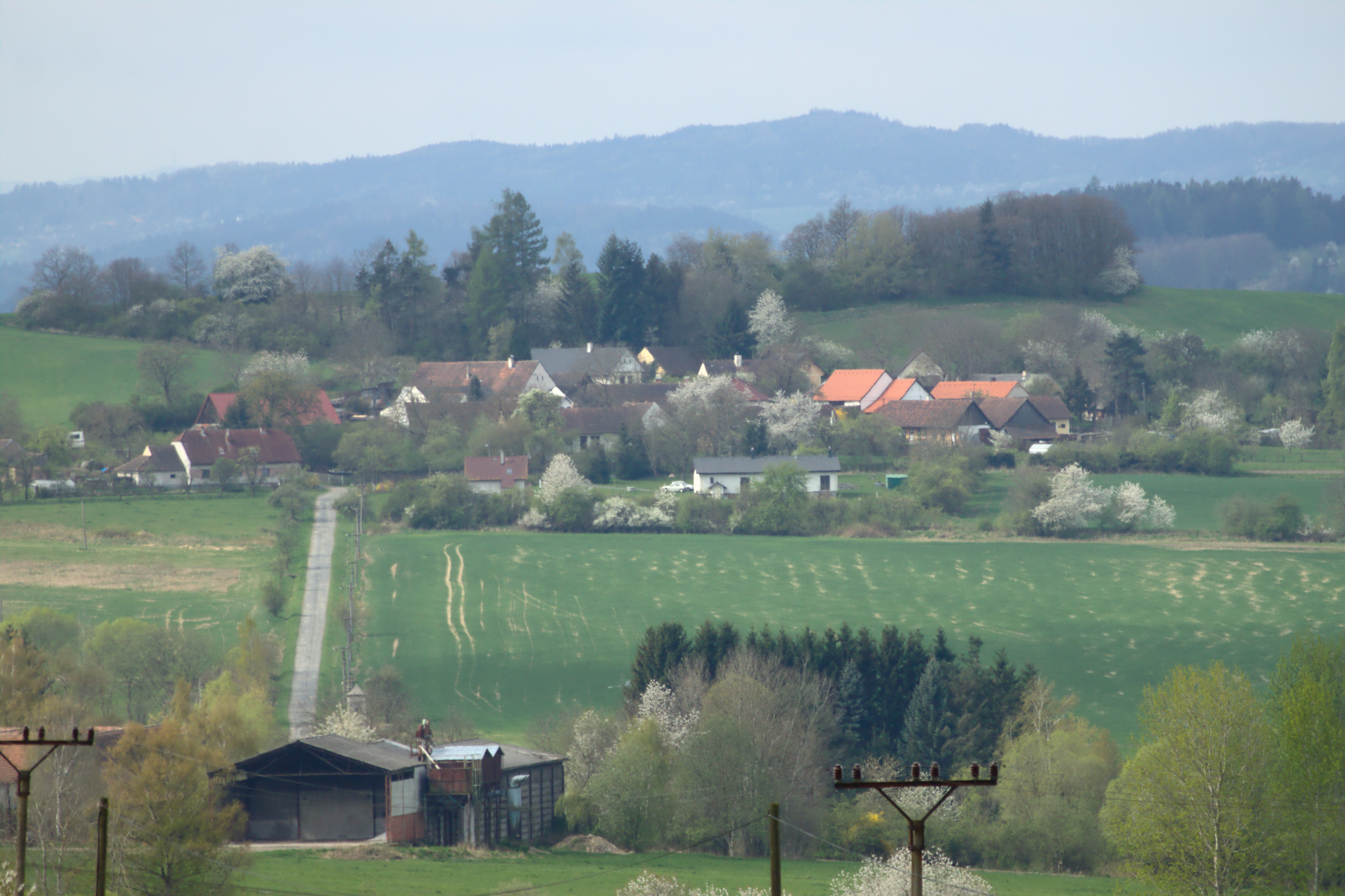 The village of Mečkov from north, Plzeň Region, CZ